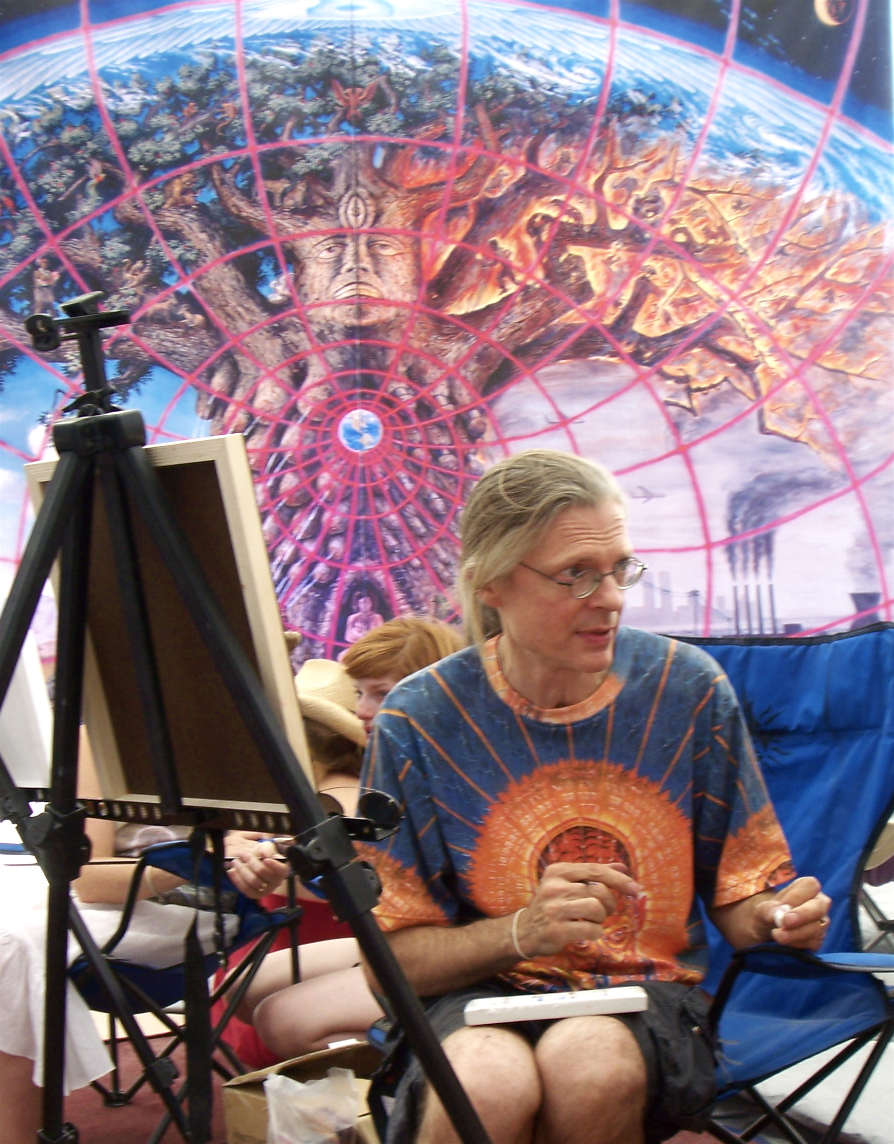 Alex Grey